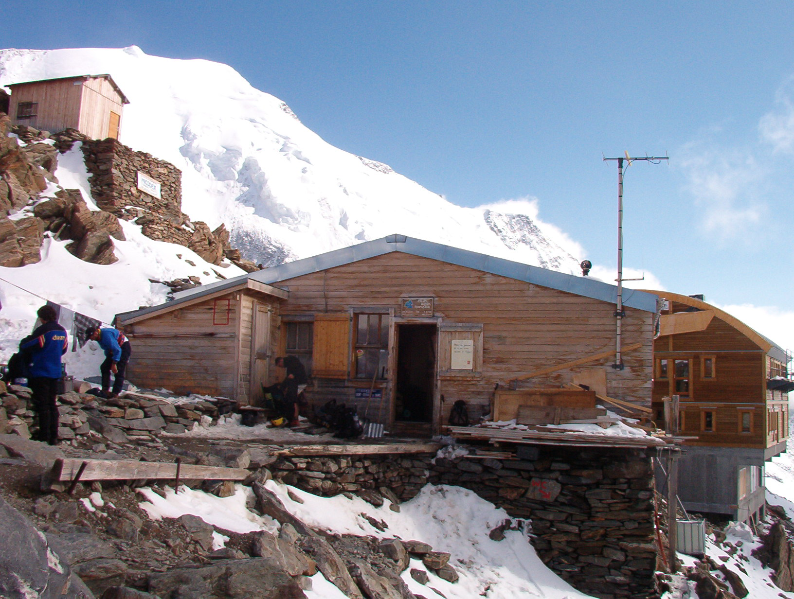 Refuge Tete Rousse - Mont Blanc Massif - Haute Savoie - France